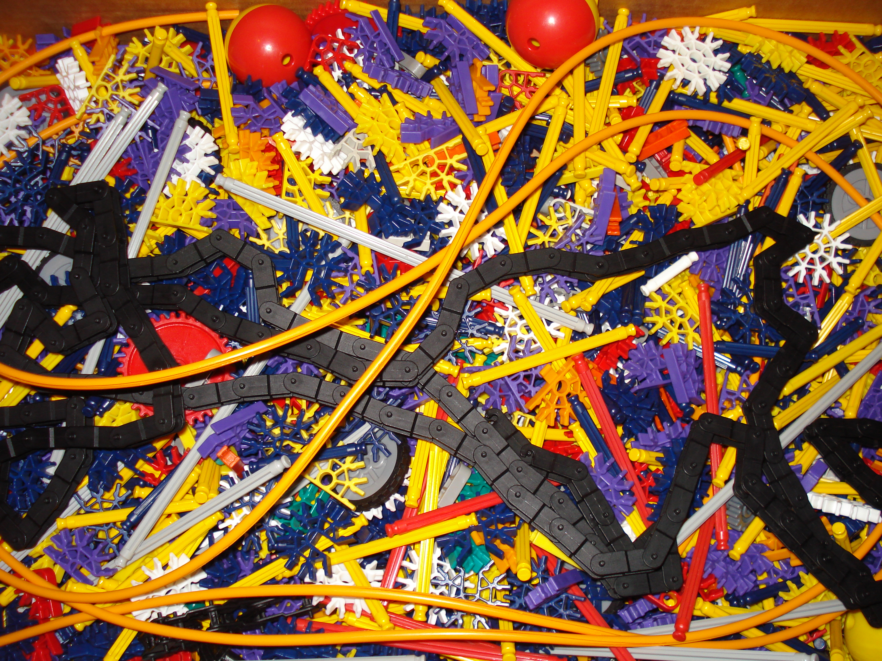 a hope K'nex